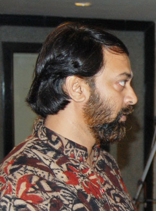 Madhupal at the 2008 Association of Malayalam Movie Artists meeting in Kochi